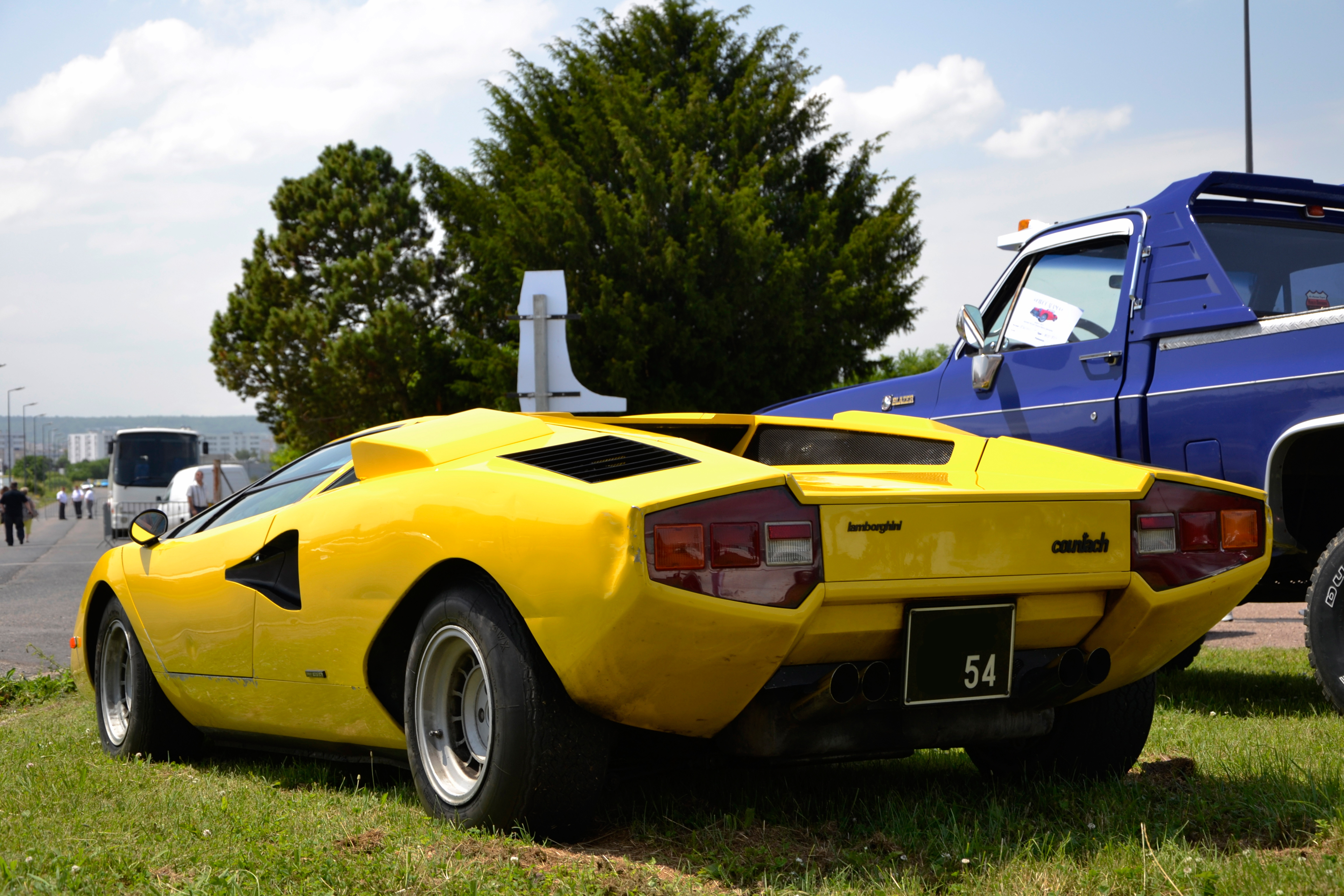 Lamborghini Countach